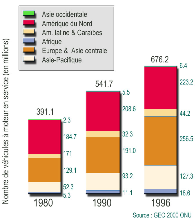 Number of motor vehicles worldwide in 1980, 1990, 1996 and increase by major world regions. (data source : UNEP, GEO 2000)